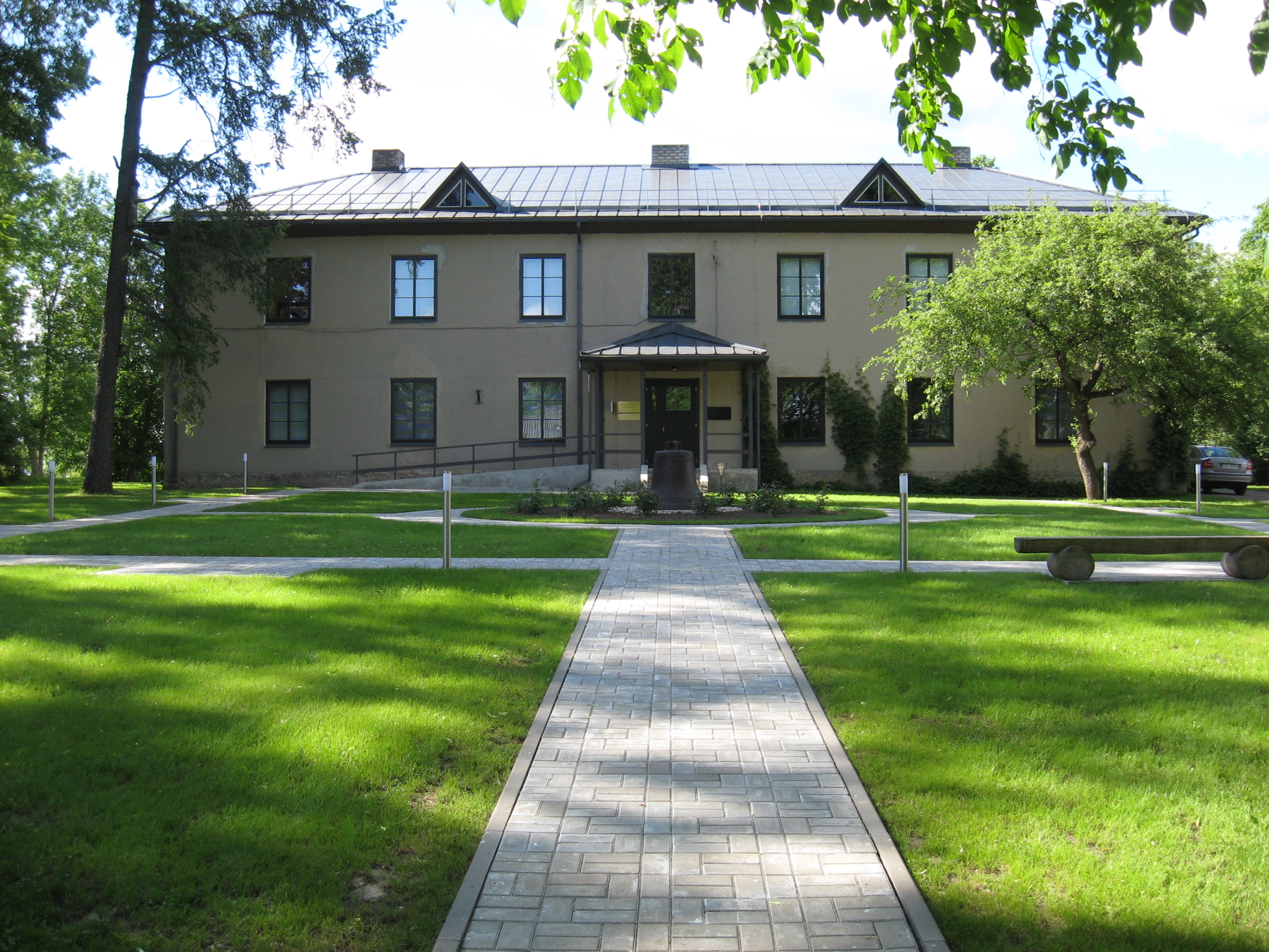 J.Cimze Seminar building in Valka, Latvia. Today is J.Cimze Museum.